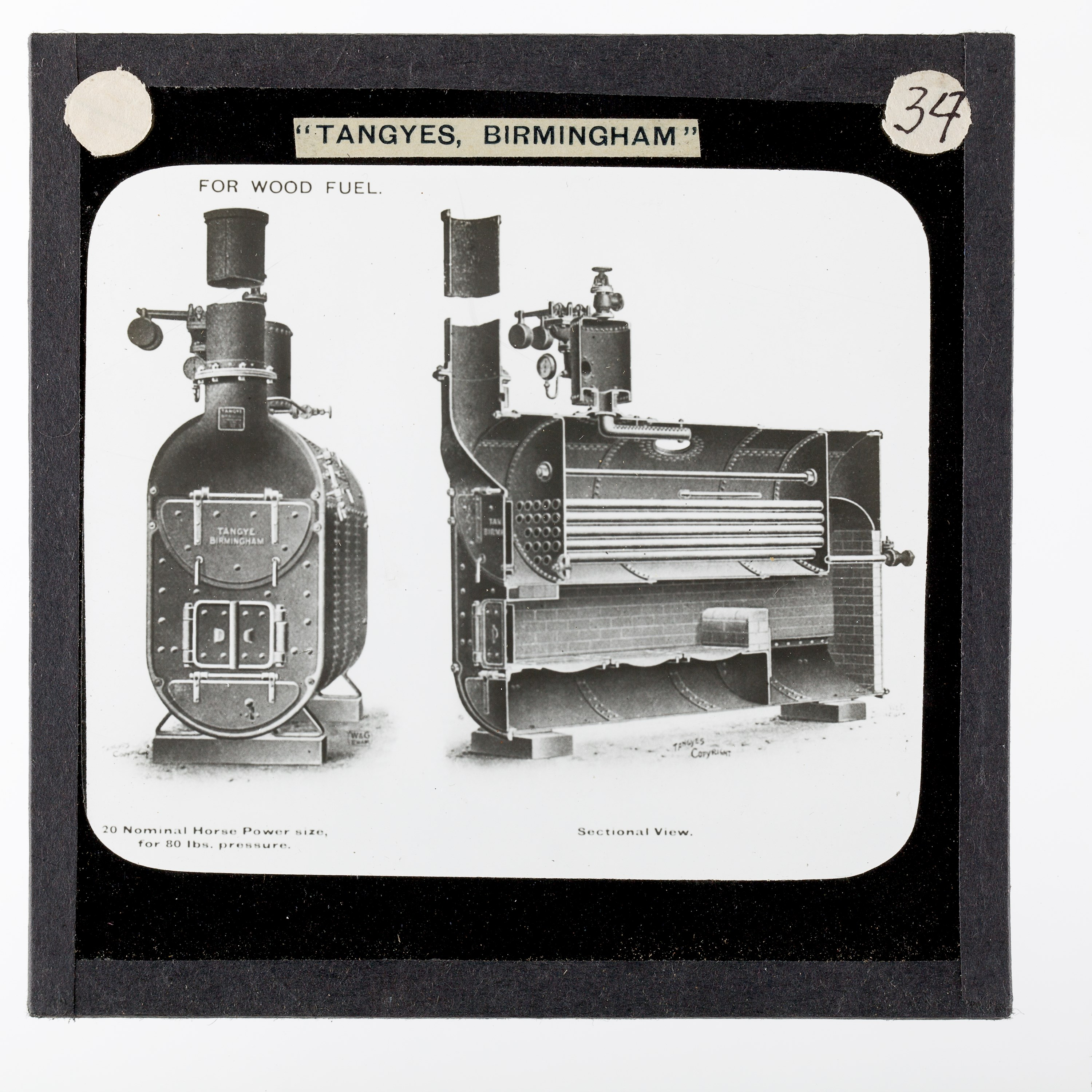 Tangye 'Colonial' fire-tube boiler for wood fuel. Right hand illustration is a cross-sectional view. The Colonial boiler was made in 80 & 100 psi versions